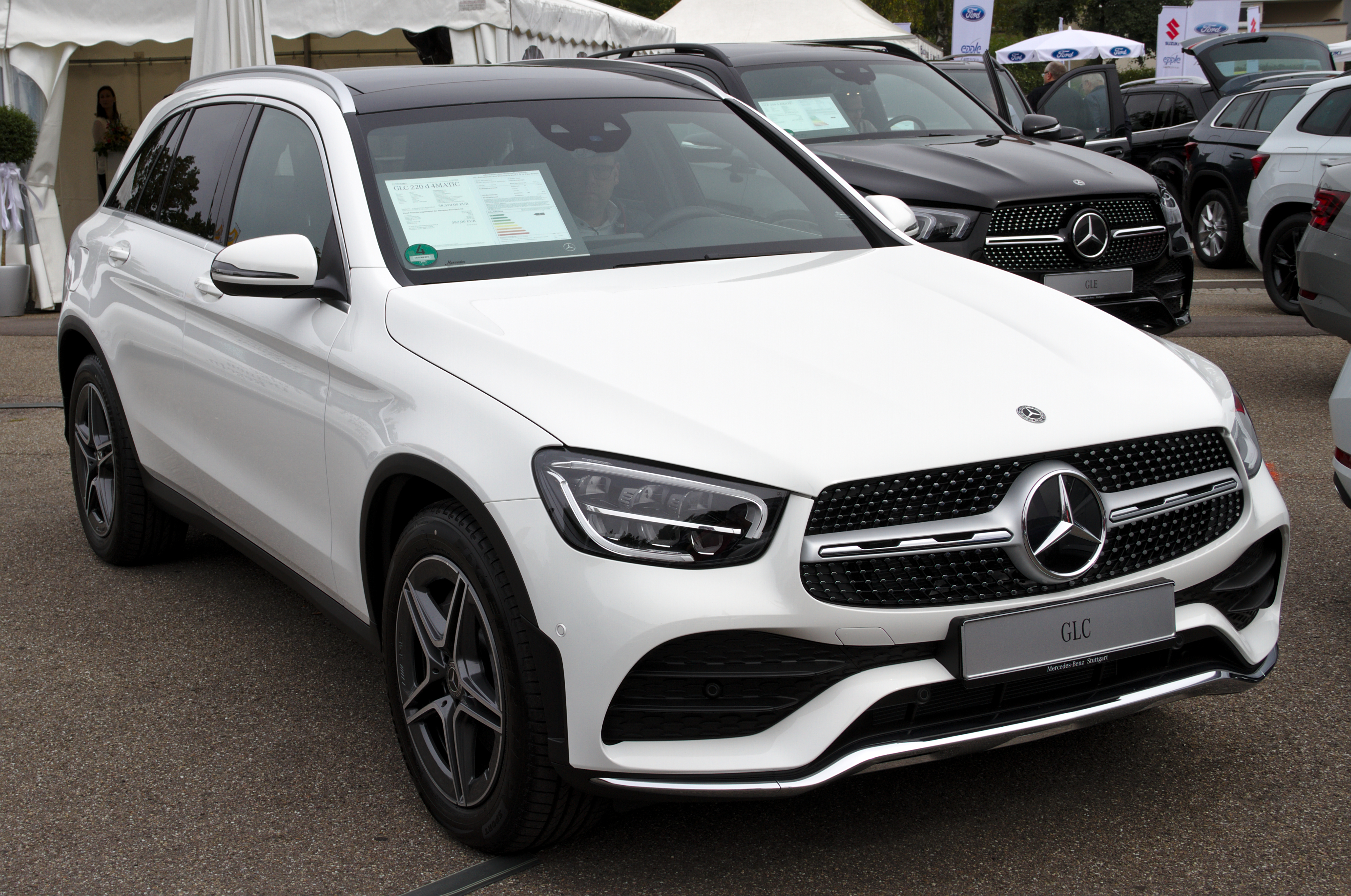 2020 Mercedes-Benz X253 at Leonberger Autoschau 2019